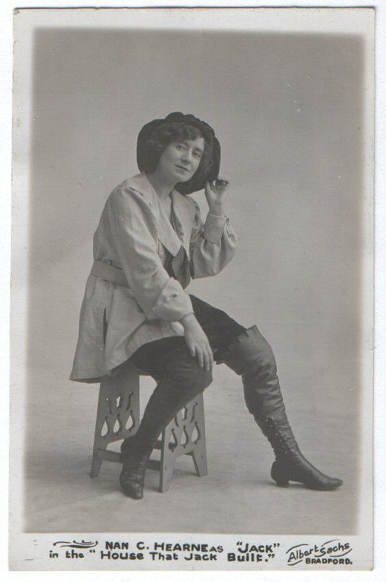 Actress Nan C. Hearne dressed as a pantomime principal boy